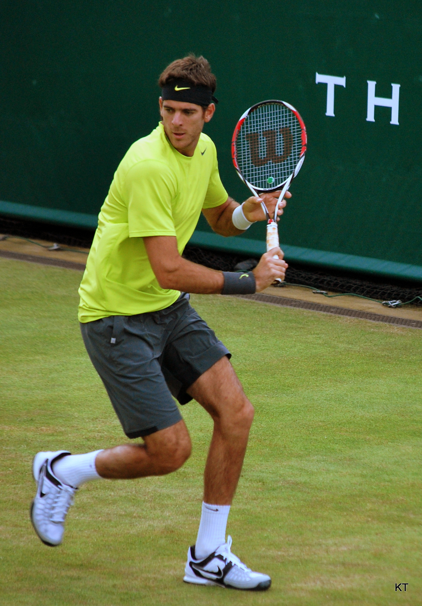 The Boodles, Stoke Park 2012.